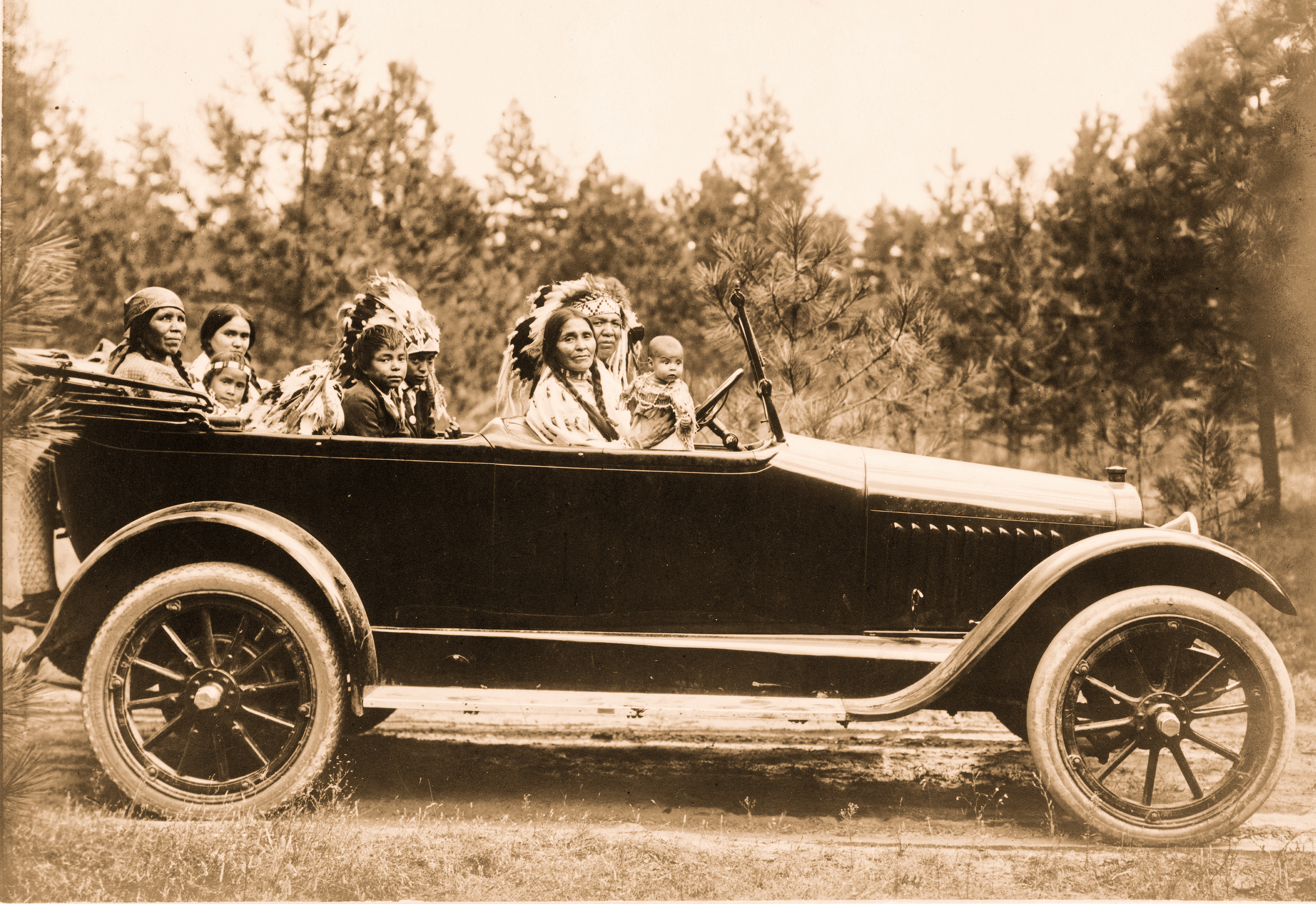 Coeur D'Alene man, Phillip Wildshoe and family, in his Chalmers automobile